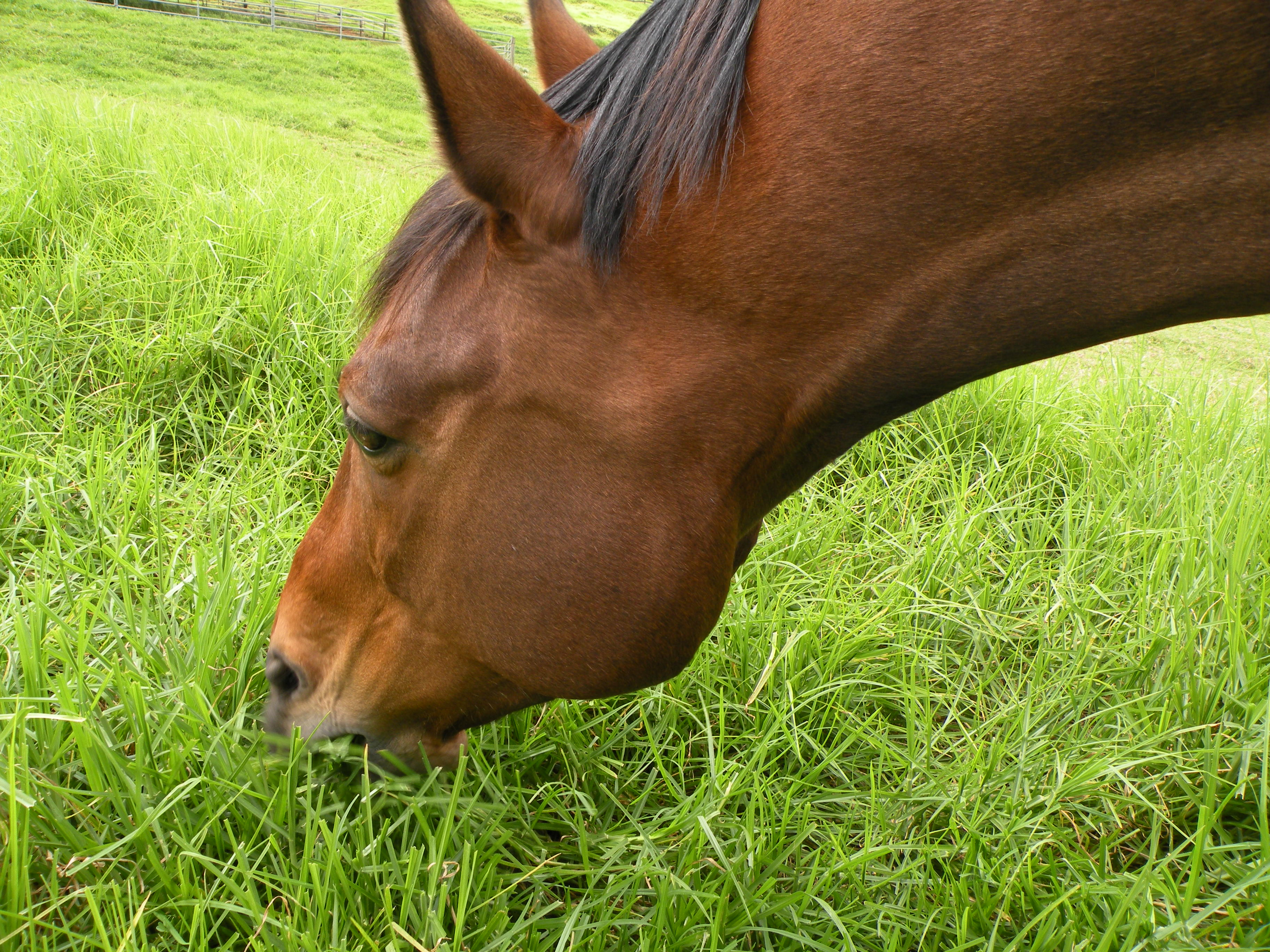 Horse Grazing. James Brennan Molokai Hawaii